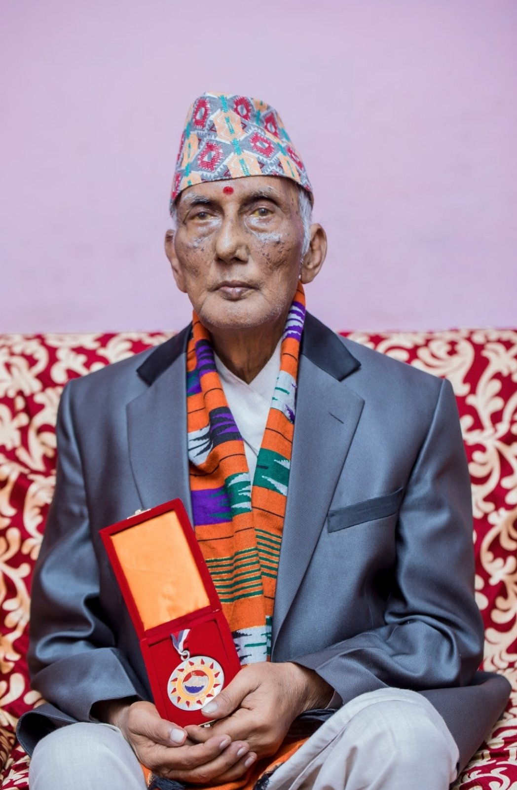 Dr Atreya received Pradesh Ratna Award for his contribution on Language and Literature